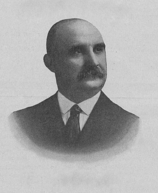 Knight of Columbus Ferdinand E. Kuhn c. 1915 in "The Guardian," Arkansas' Catholic newspaper